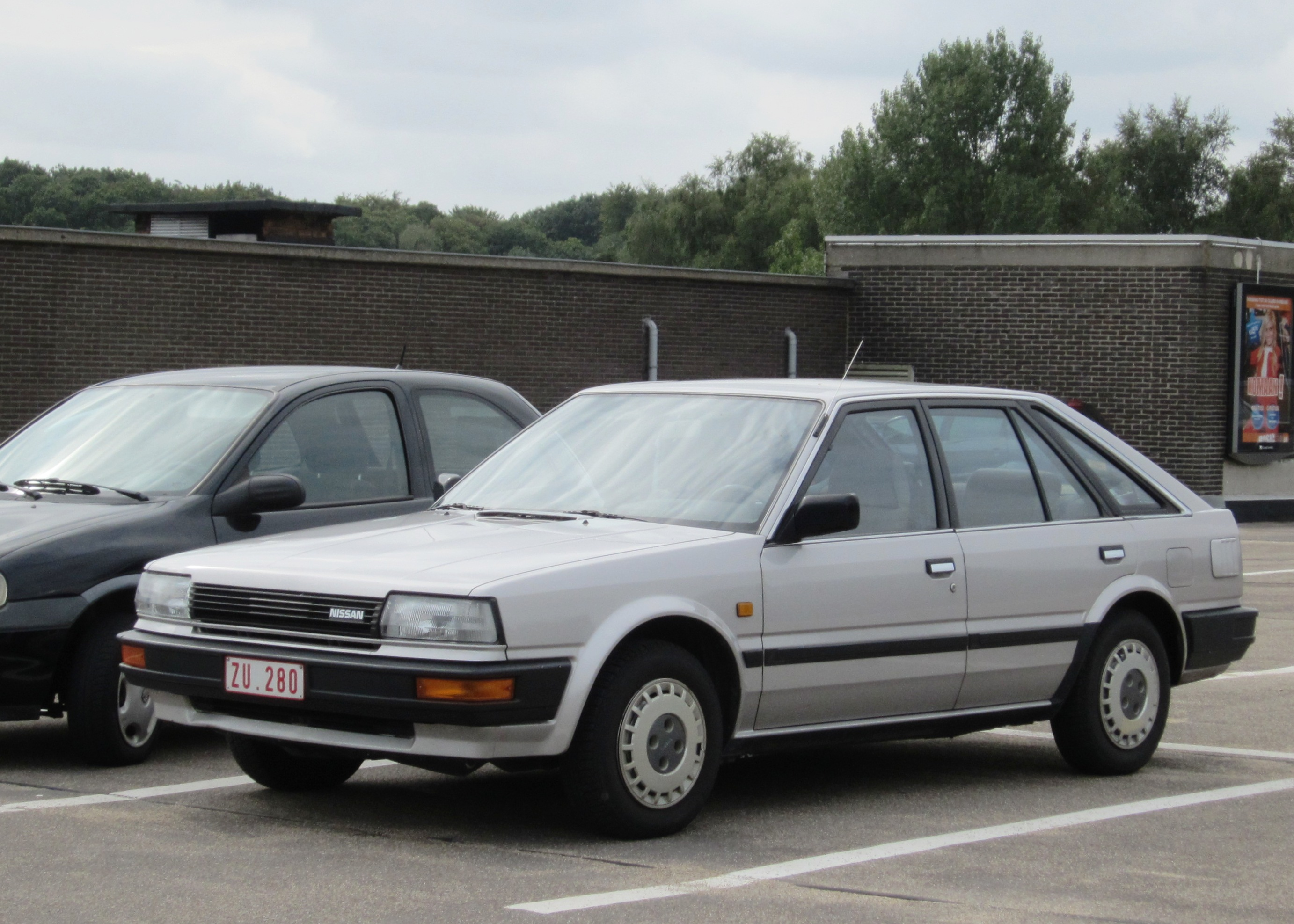 Nissan Bluebird T12 Hatchback (ca 1988) Nissan naming is complicated for this period, because of the variety of names applied according to whether your were in Australia, Japan, Europe or the USA. This one, photographed in Belgium, was known as a Nissan Bluebird in Europe, and almost certainly produced in Washington in the north-east of England